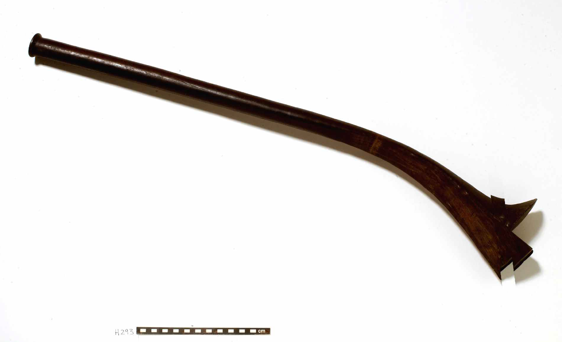 H000293 Carved wooden club. From Fiji or Tonga, the Pacific.